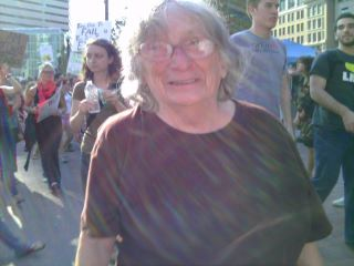 Lisa Redfield Peattie at Occupy Boston Demonstration